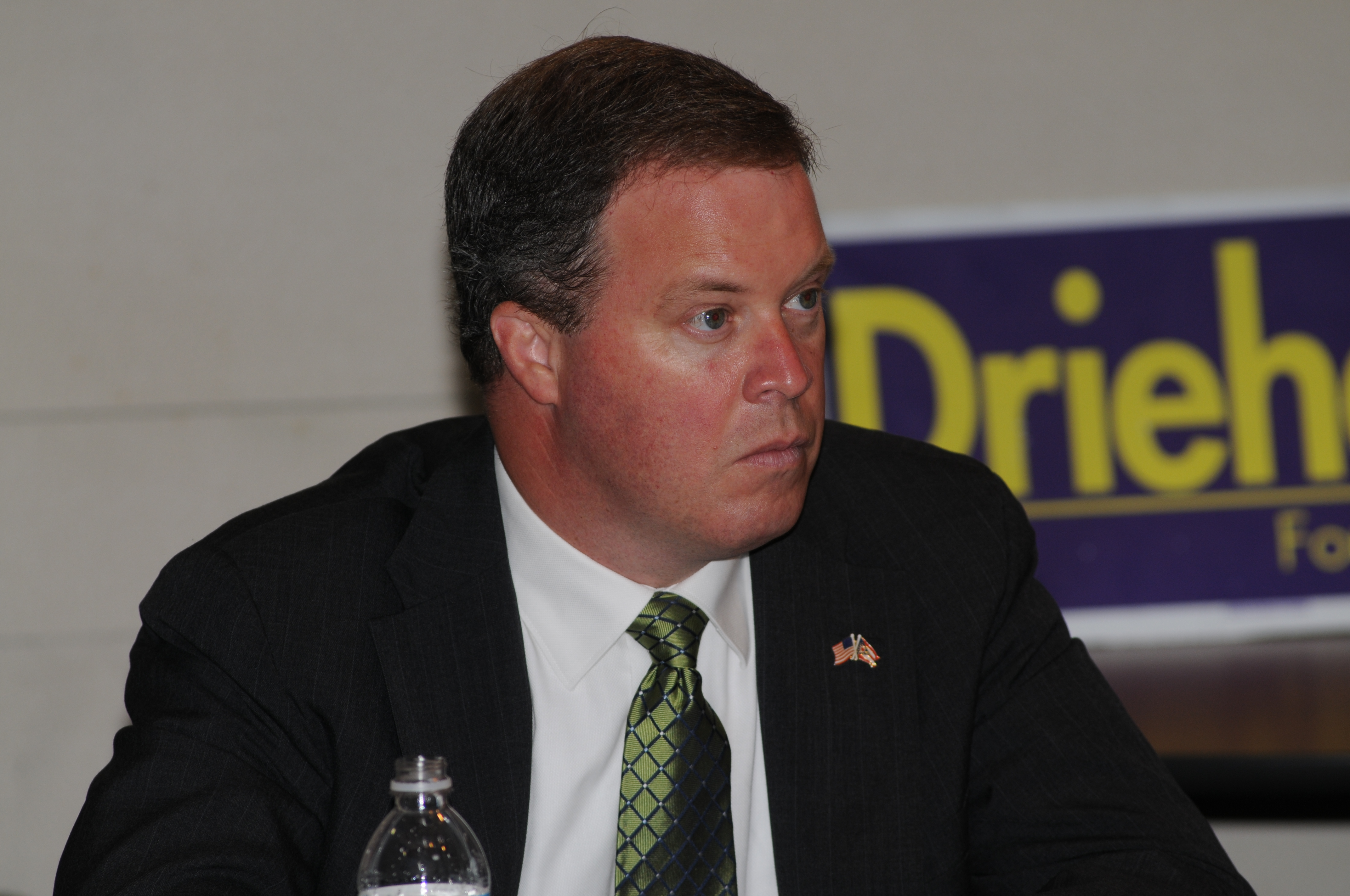 Steve Driehaus